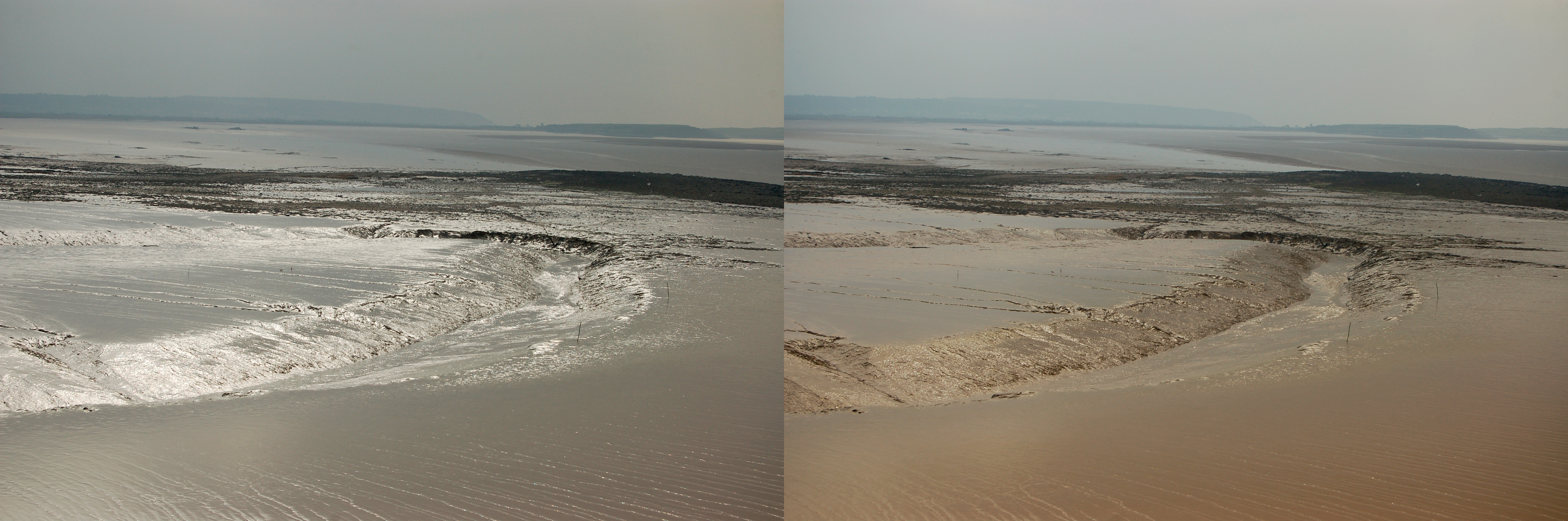 View from Wain's Hill, Clevedon - This is not a breaking wave, but a stream of water digging a path through wet mud. Two images of mudflats taken to show effect of rotating polarising filter. (Left- Polarising filter oriented not to reduce. Right- Polarising filter oriented to reduce glare).